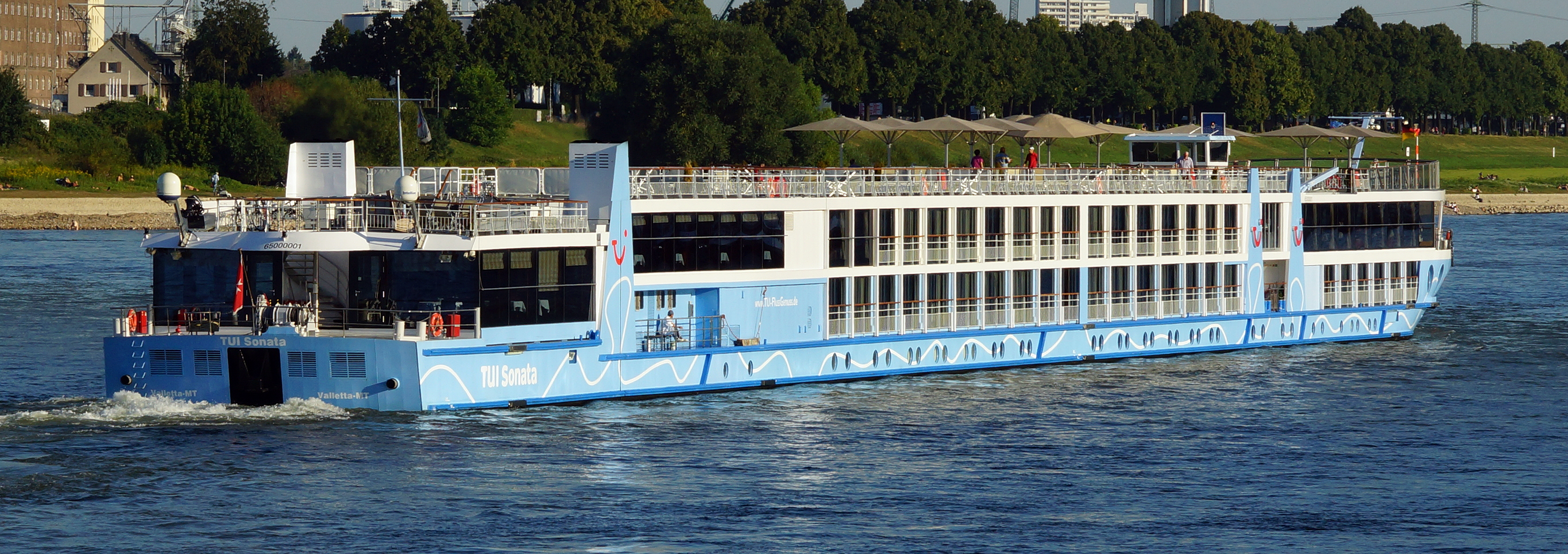 River cruise ship TUI Sonata in Cologne.